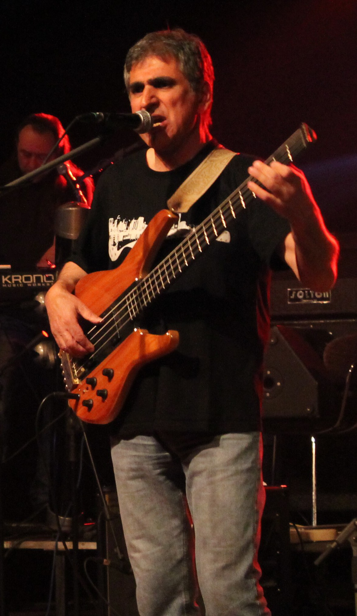 Emanuel Sideridis, former member of czech rock band Progres 2, Brno, Czech Republic - OpenStreetMap(Info)